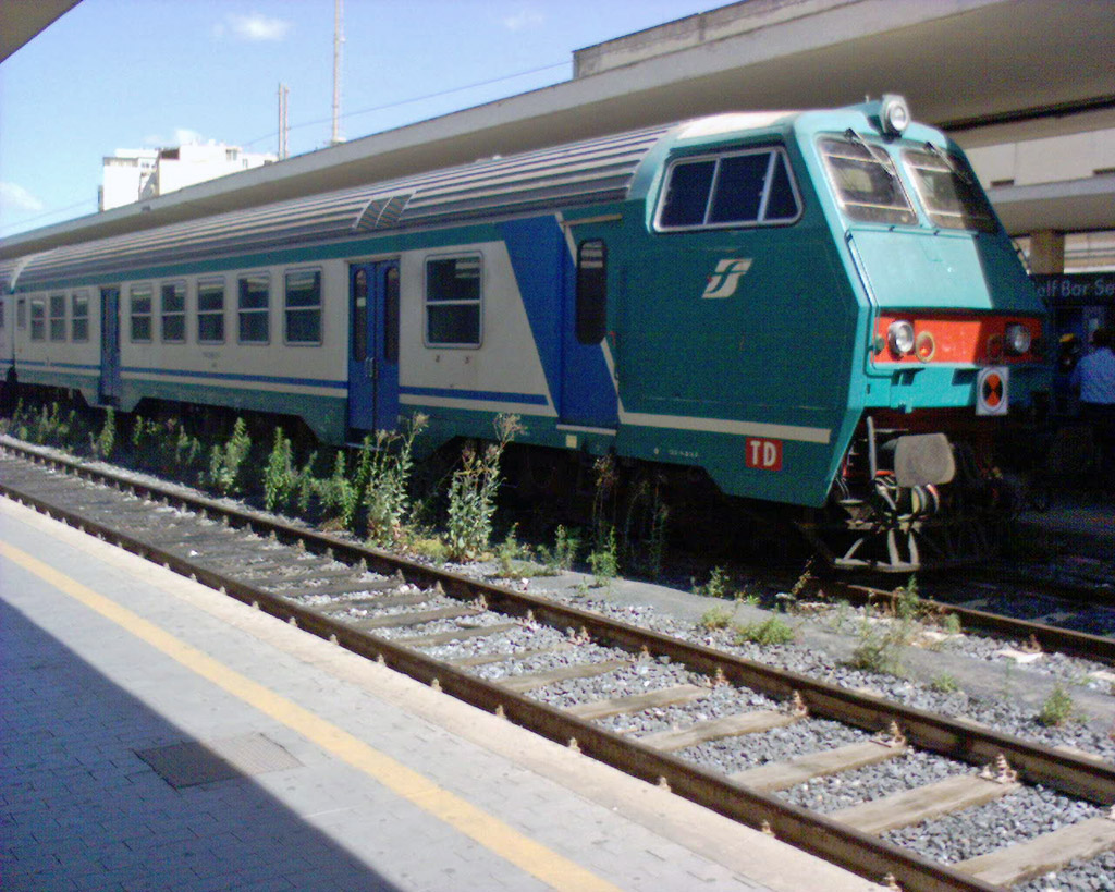 Control Car MDVC TD in the Cagliari FS railway station, in Sardinia, Italy